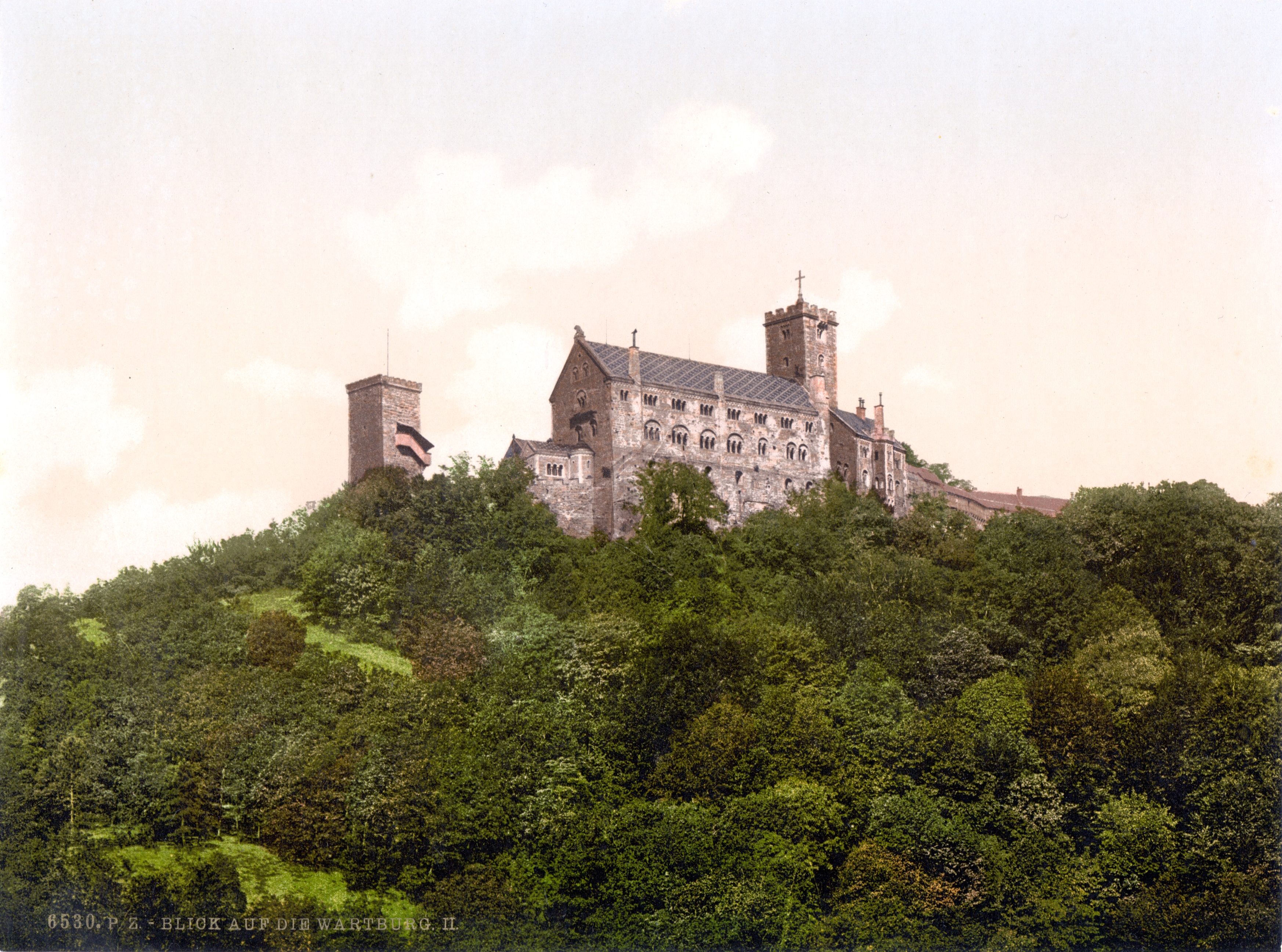 The Wartburg - view from south-east